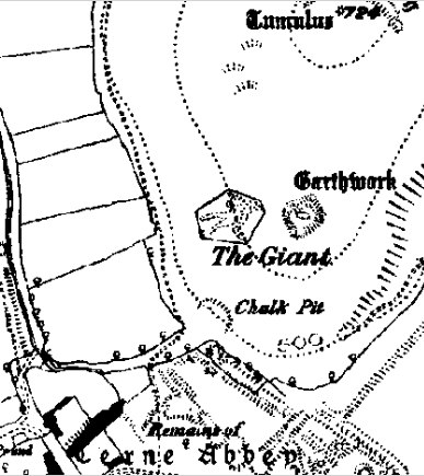 1891 Ordnance Survey map extract showing the Cerne Abbas Giant